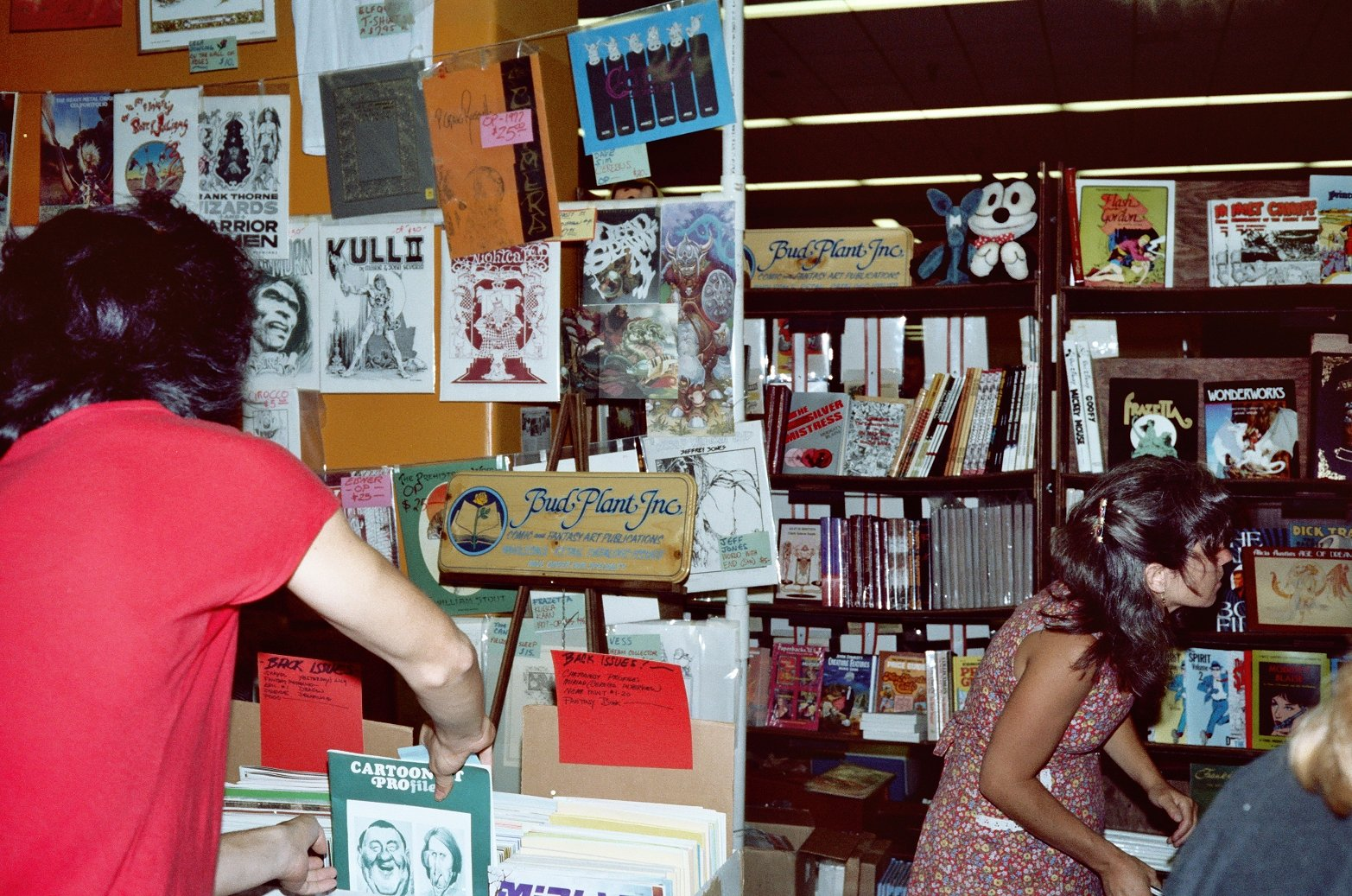 1982 San Diego Comic-Con International. Scanned from the original 35MM film negative. NOTE: Permission granted to copy, publish, broadcast or post any of my photos, but please credit "photo by Alan Light" if you can. Thanks.